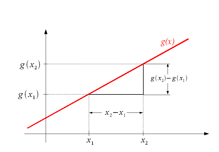 Linear function